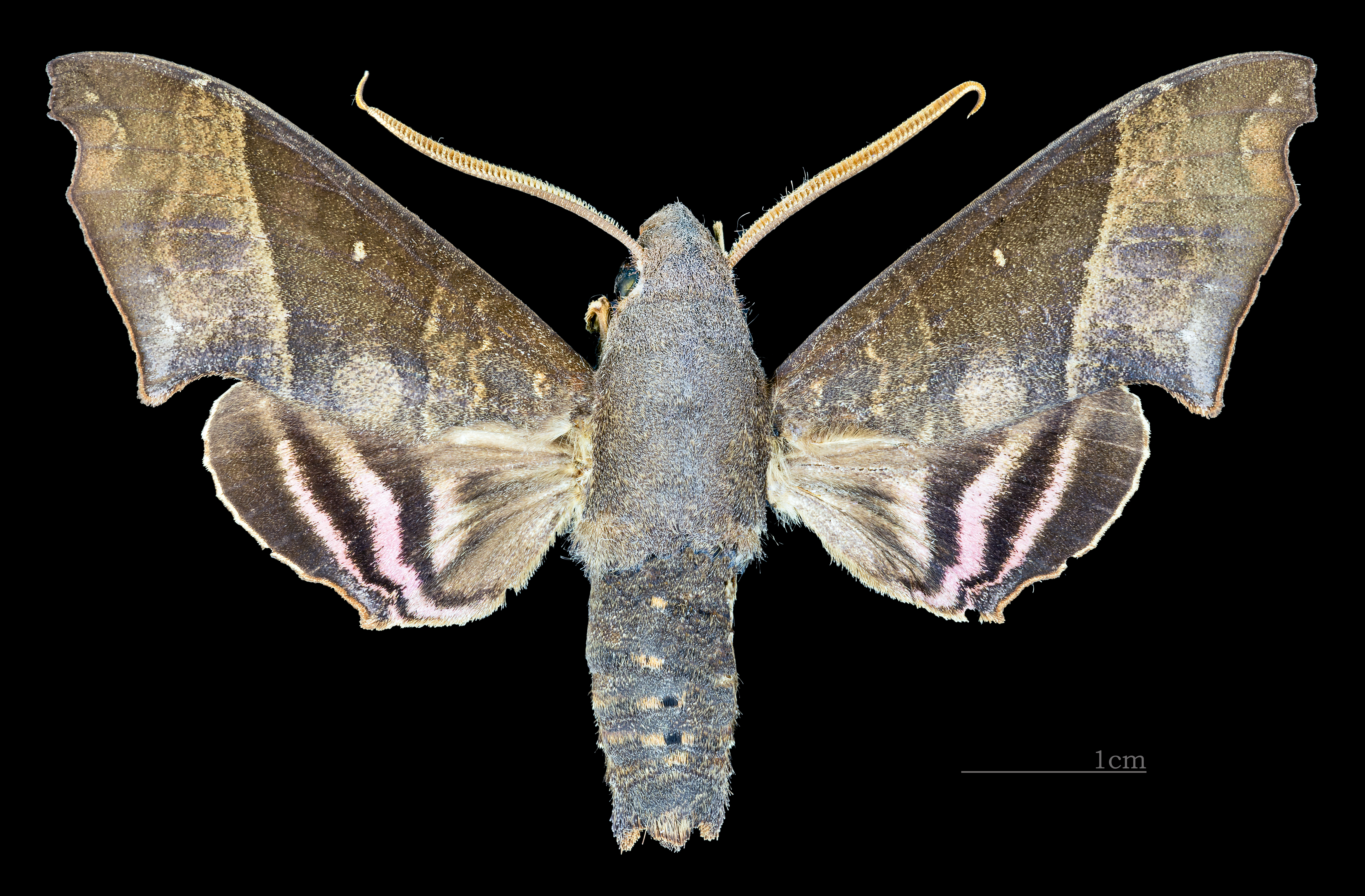 Pachygonidia hopfferi - Dorsal side